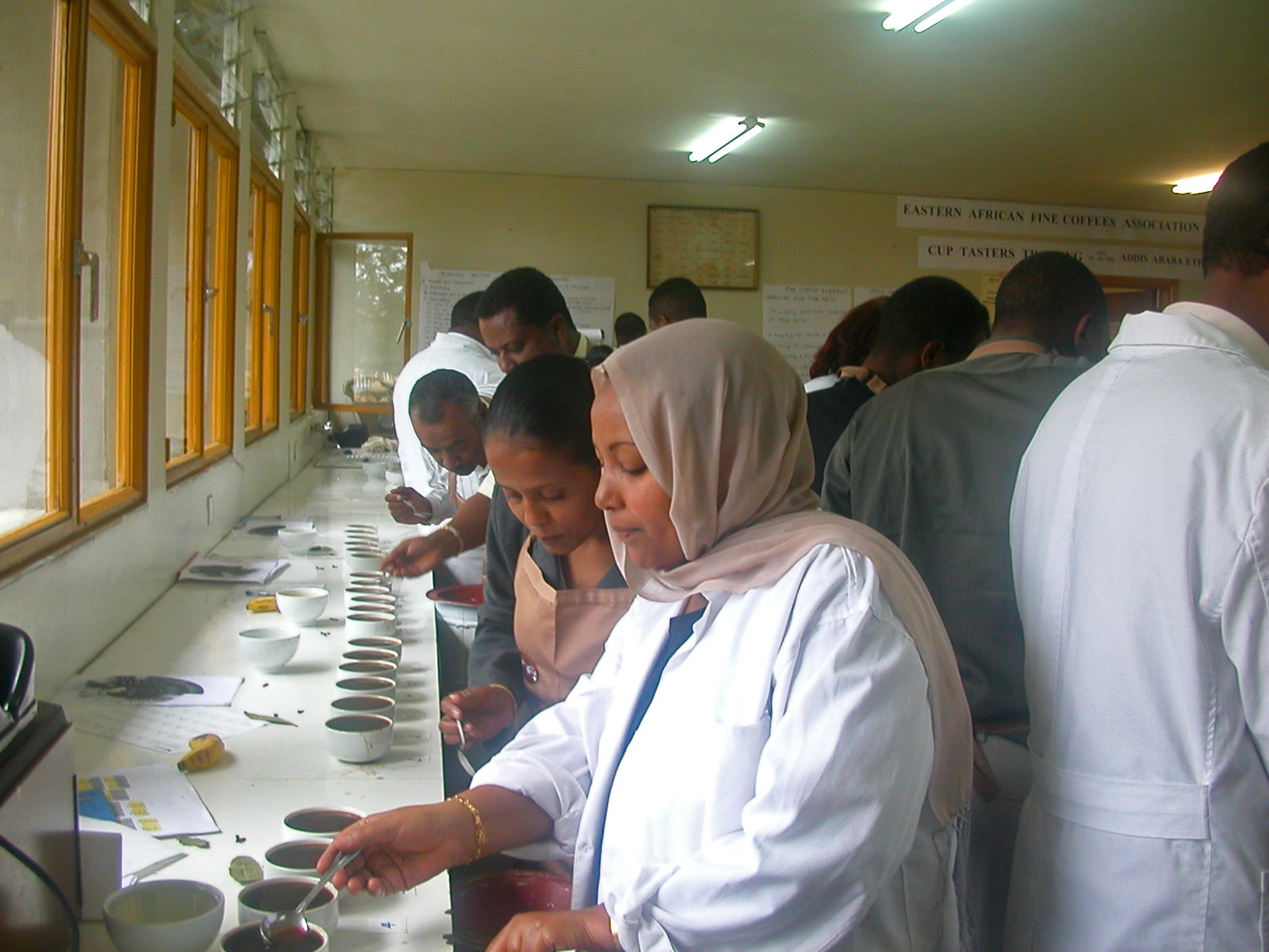 Ethiopian coffee tasters hone their skills during a Coffee Corps Advanced Cuppers Training Seminar. Photo Credit: G. LaRue/USAID.